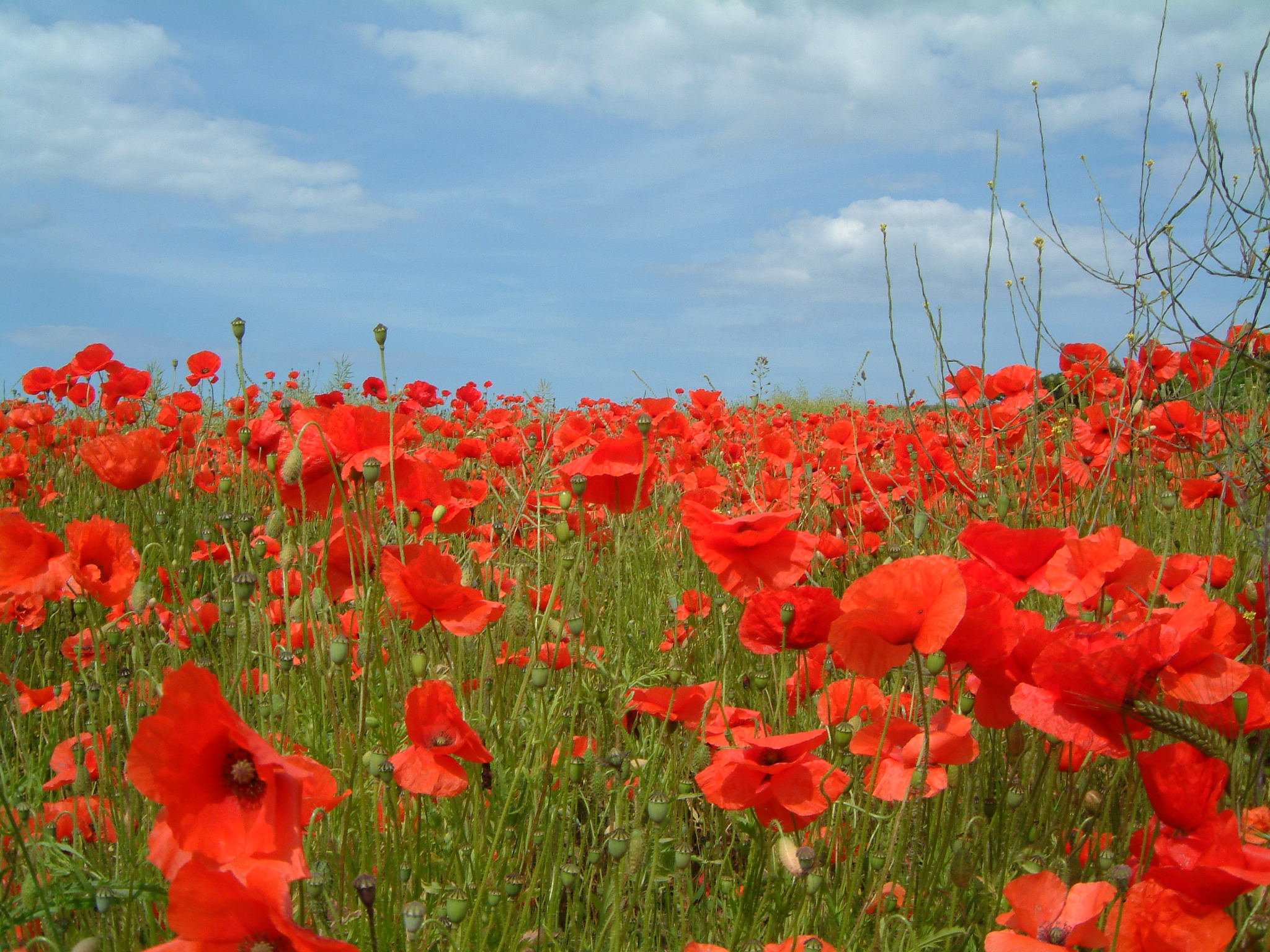 Poppies (Papaver rhoeas) in field between Kelling and Weybourne, North Norfolk, England.